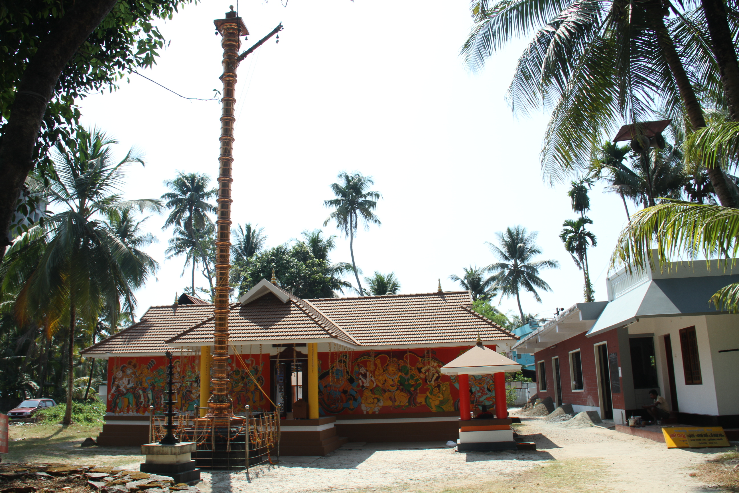 MURUKA TEMPLE